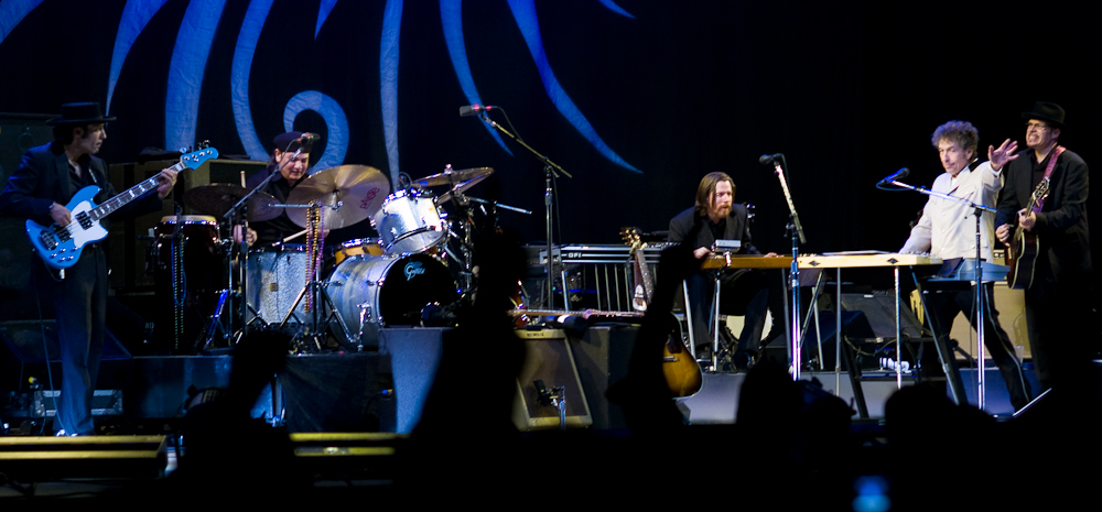 Bob Dylan at Oslo Spectrum March 30th 2007